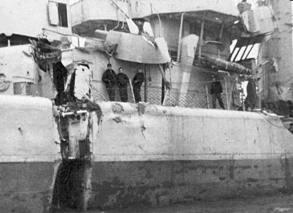 Battle damage to the United States Navy destroyer USS Endicott after the Battle of La Ciotat in 1944.